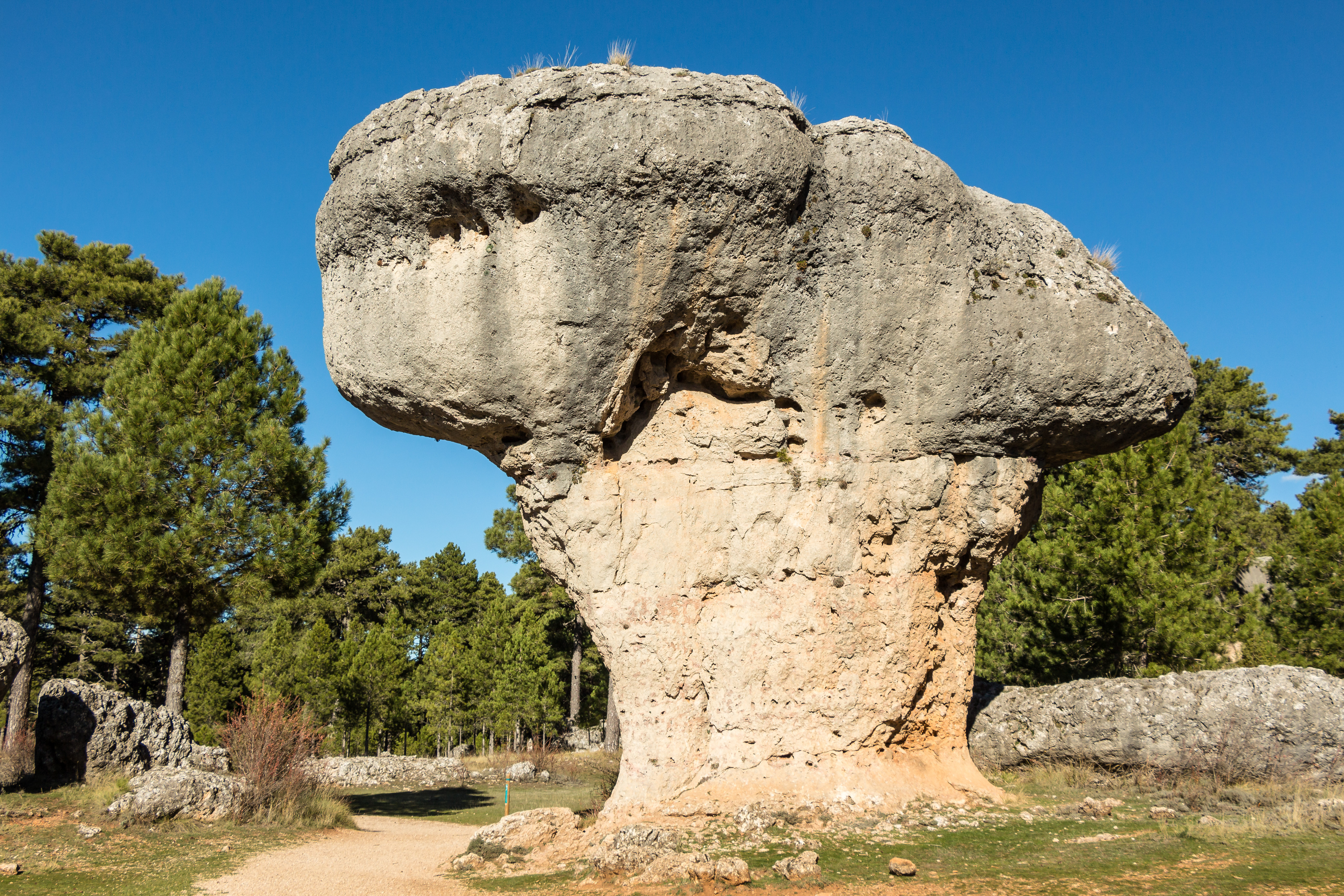 This is a photography of a Special Area of Conservation in Spain with the ID: ES4230014. Natura2000 entry, EEA entry